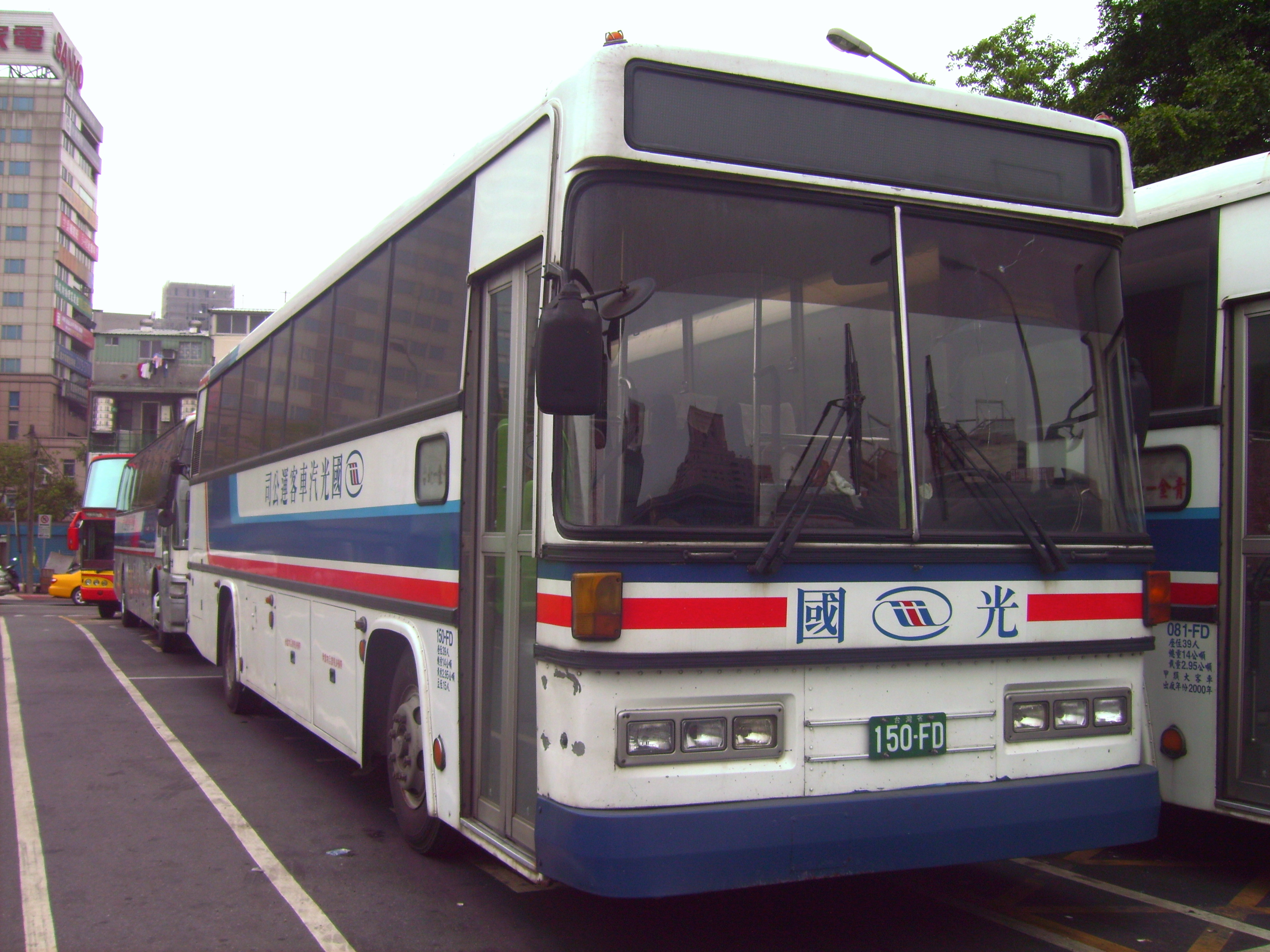 Kuo-kwang Bus Co., Ltd. also operated with Hino ERK buses.